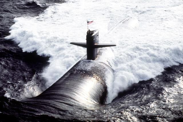 USS Buffalo (SSN-715) underway at high speed on the surface.